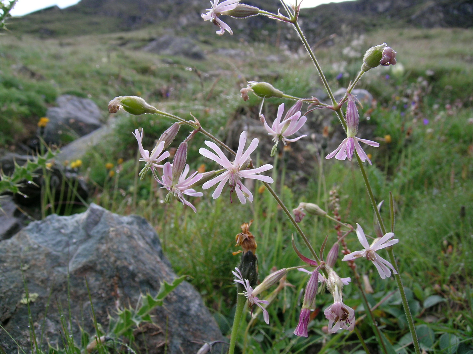 Silene nutans Zermatt, way to Findelen (Kanton Wallis, Switzerland), 2300 m Author: Roland Teuscher – own photograph Date: 3.08.06